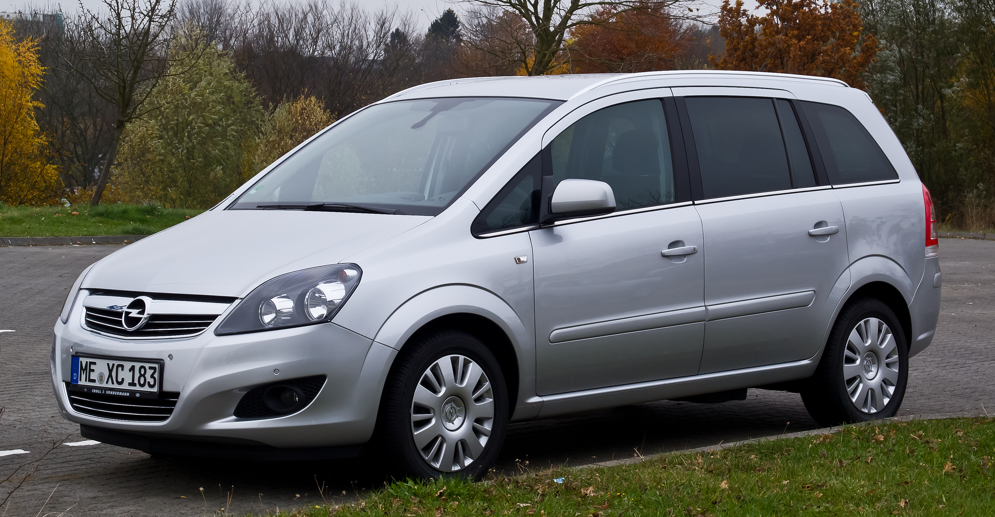 Opel Zafira 1.6 CNG ecoFlex Turbo Design Edition (B, Facelift)